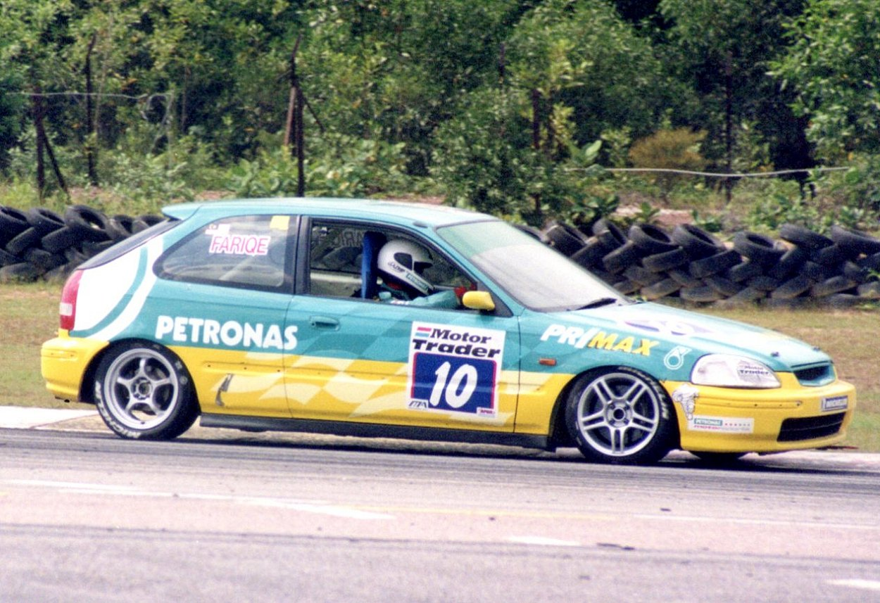 Fariqe Hairuman racing a Honda Civic EK4 at Batu Tiga Raceway in 2002.